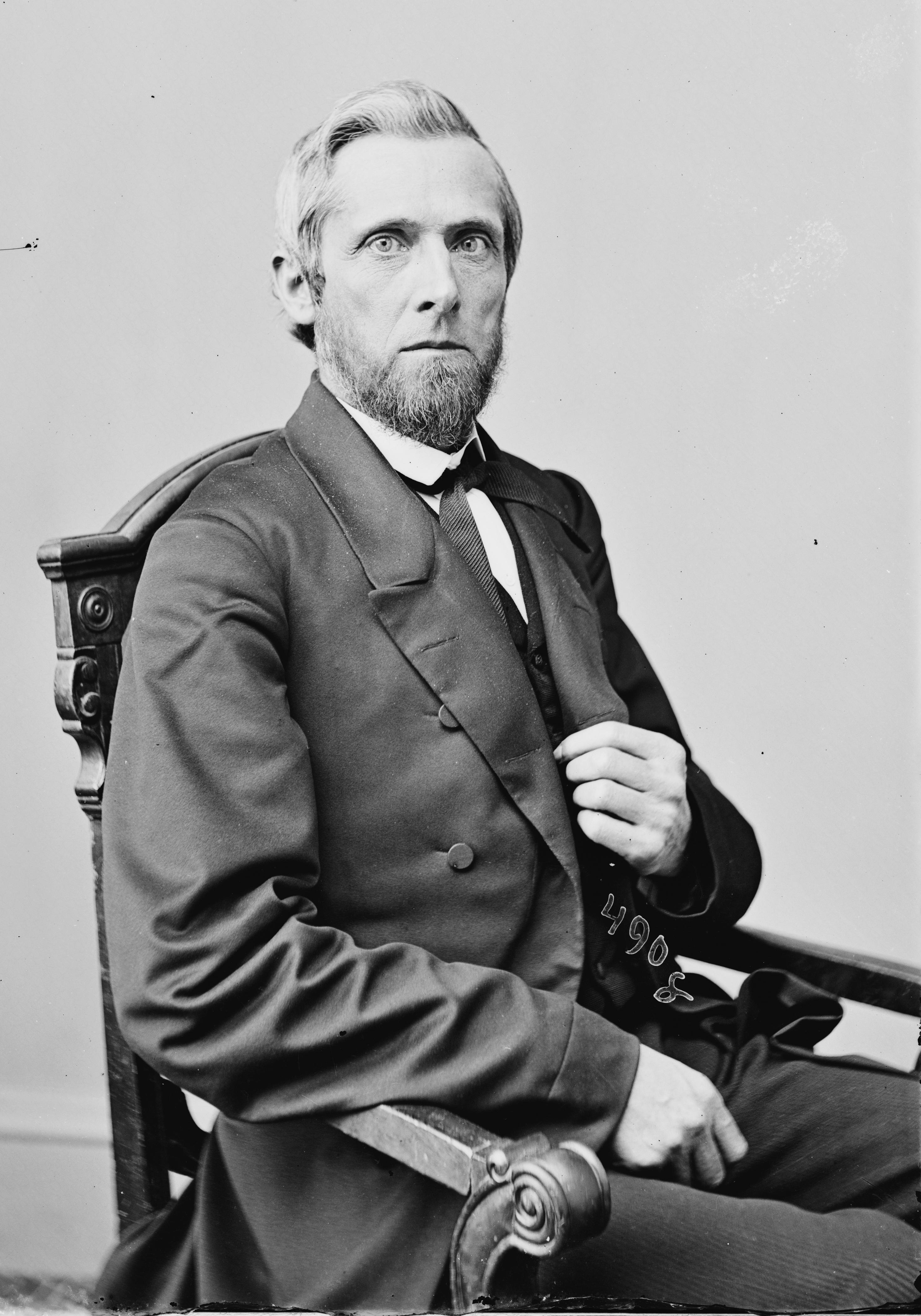 Waitman T. Willey. Library of Congress description: "Hon. Waitman Thomas Willey of VA."